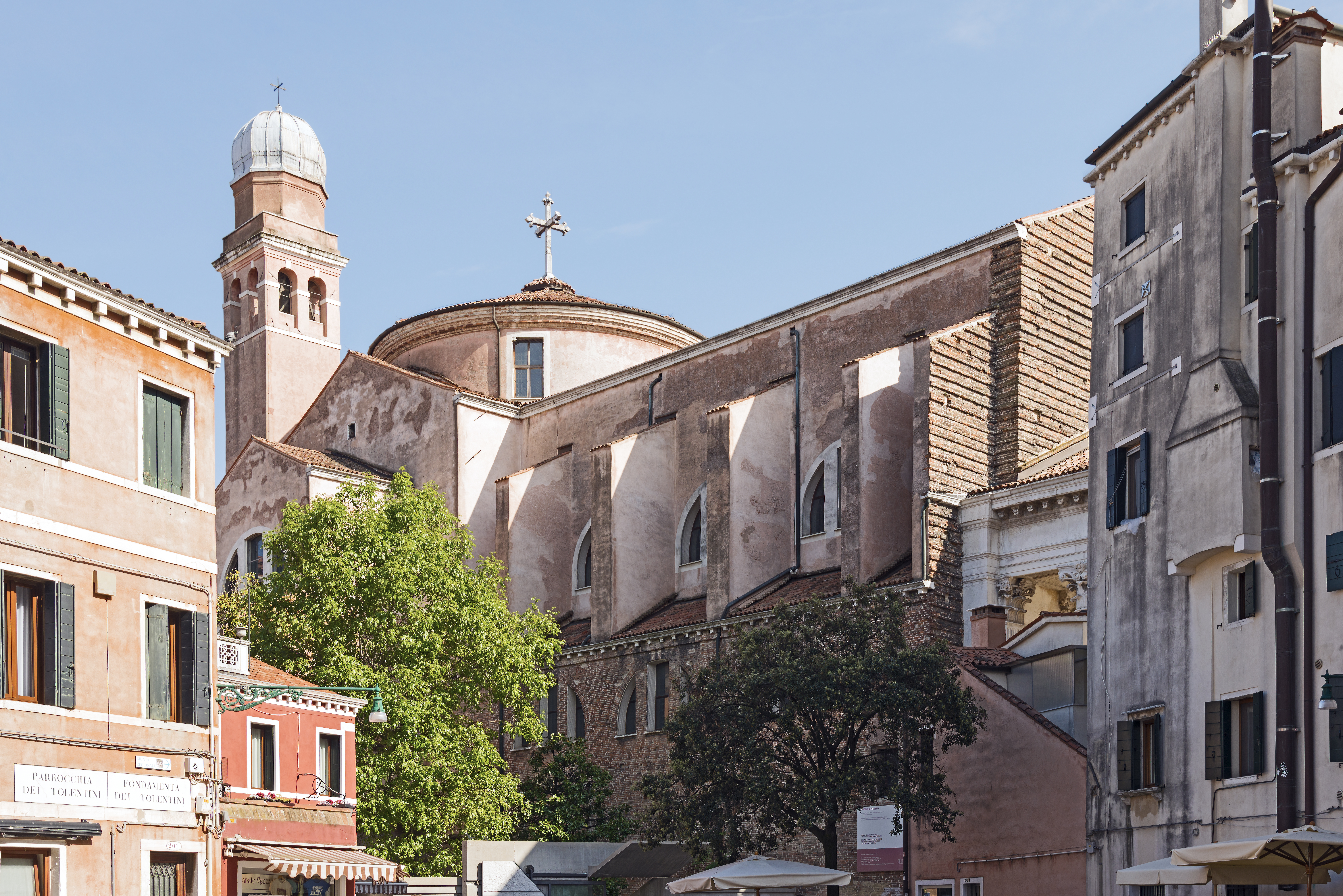 Chiesa di San Nicola da Tolentino in Venice. The north side of the church and bell tower.